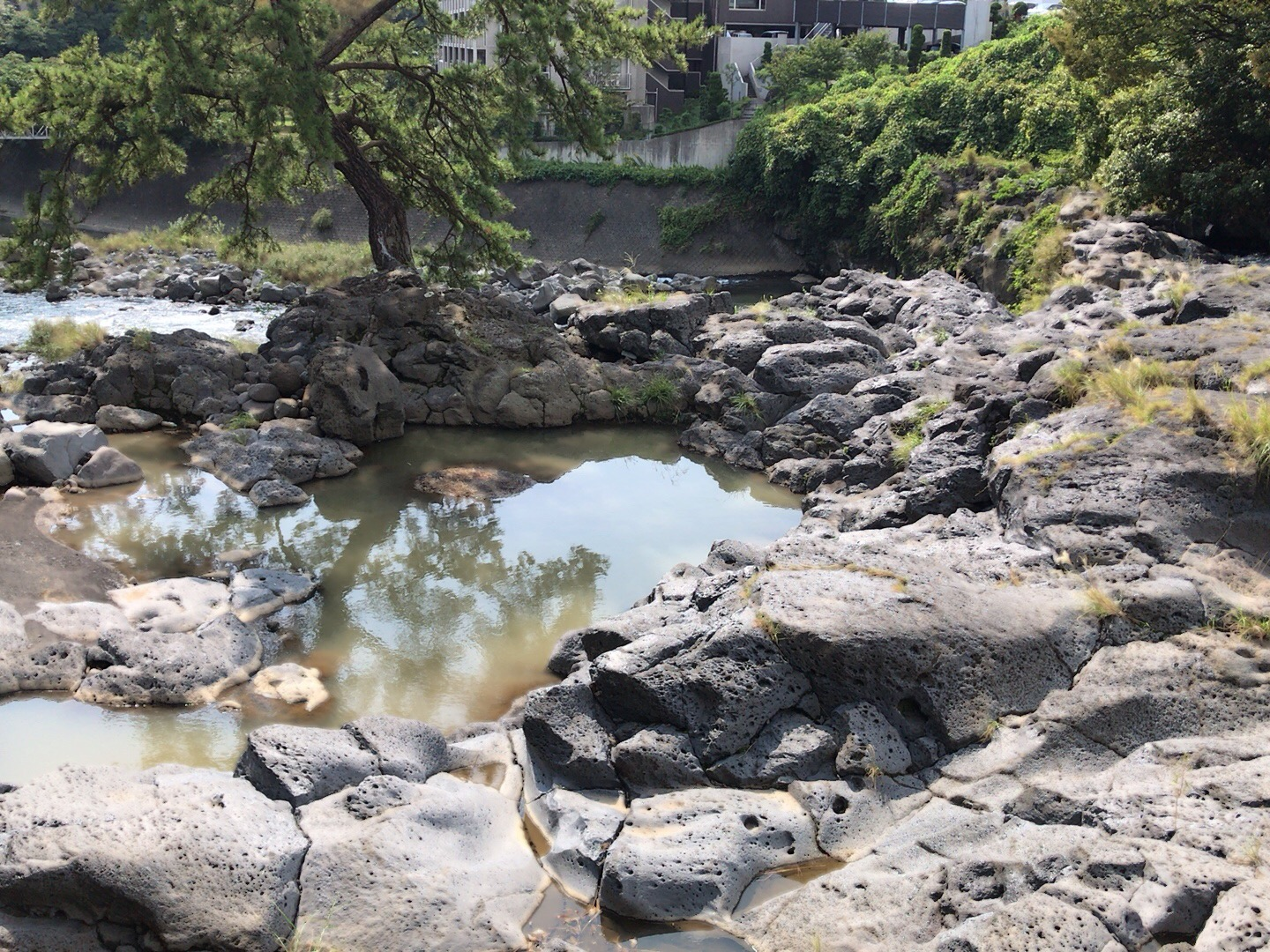 Processed with MOLDIV